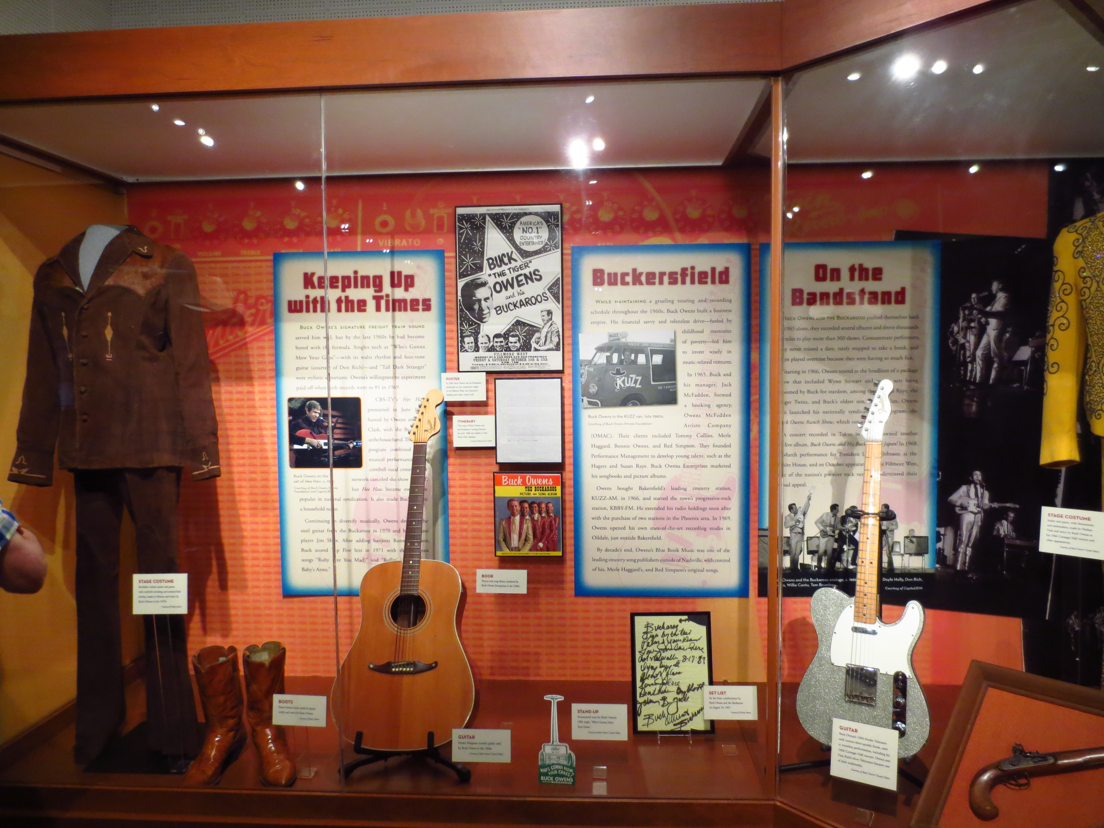 Part of Buck Owens Exhibit at Country Music Hall of Fame And Museum, 2013